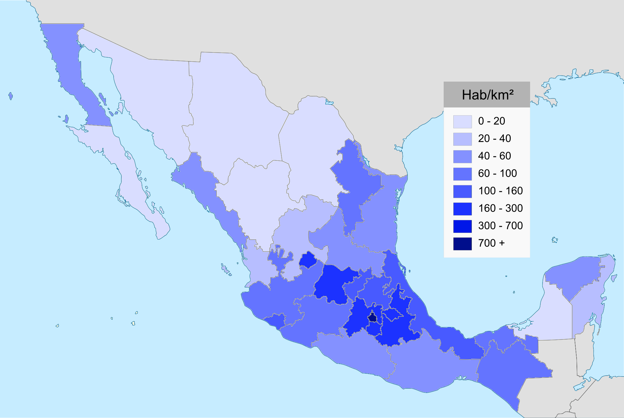 Mexico States Map That Shows Their Population Density